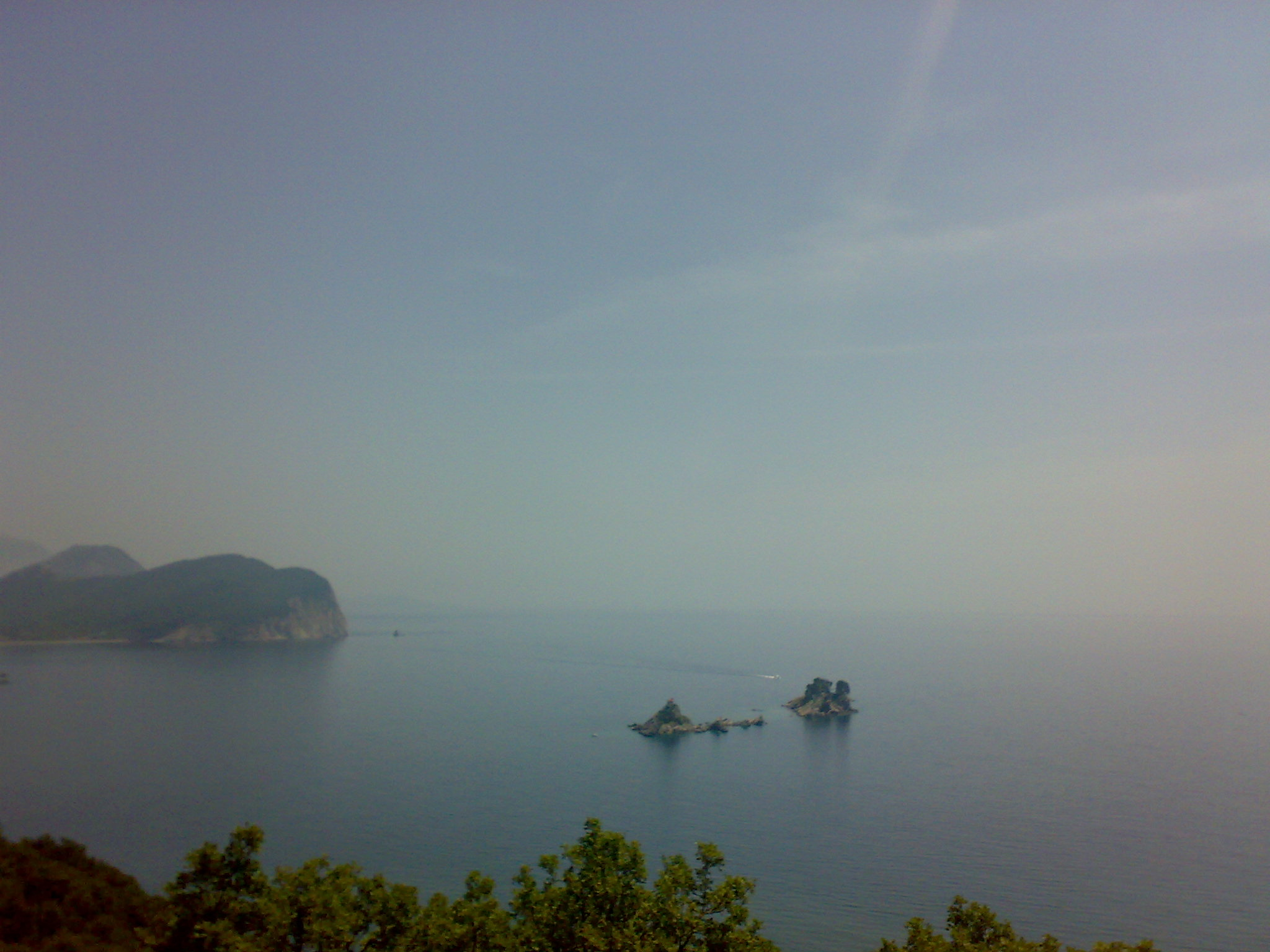 Mali Katic church outside Petrovac Montenegro